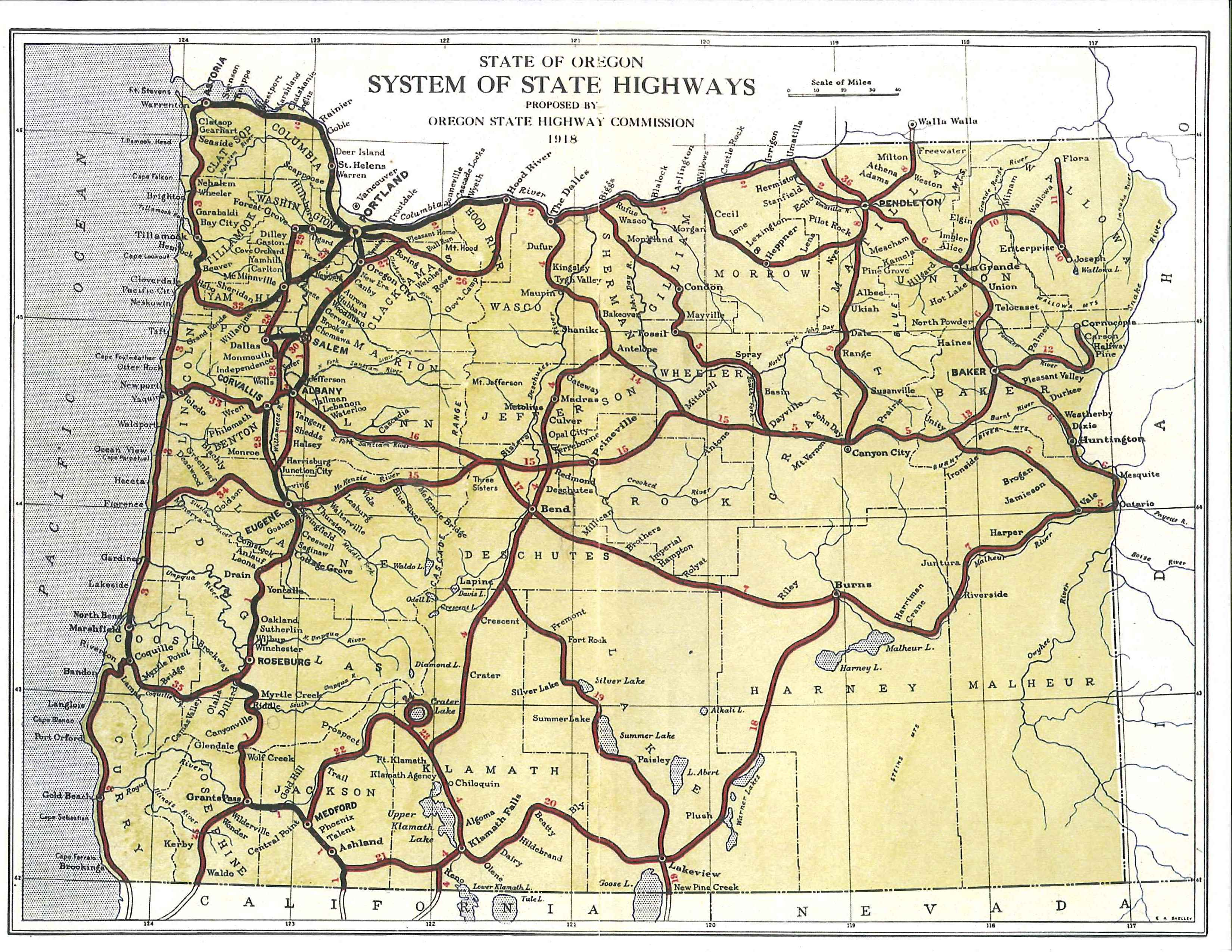 Proposed State of Oregon System of State Highways 1918